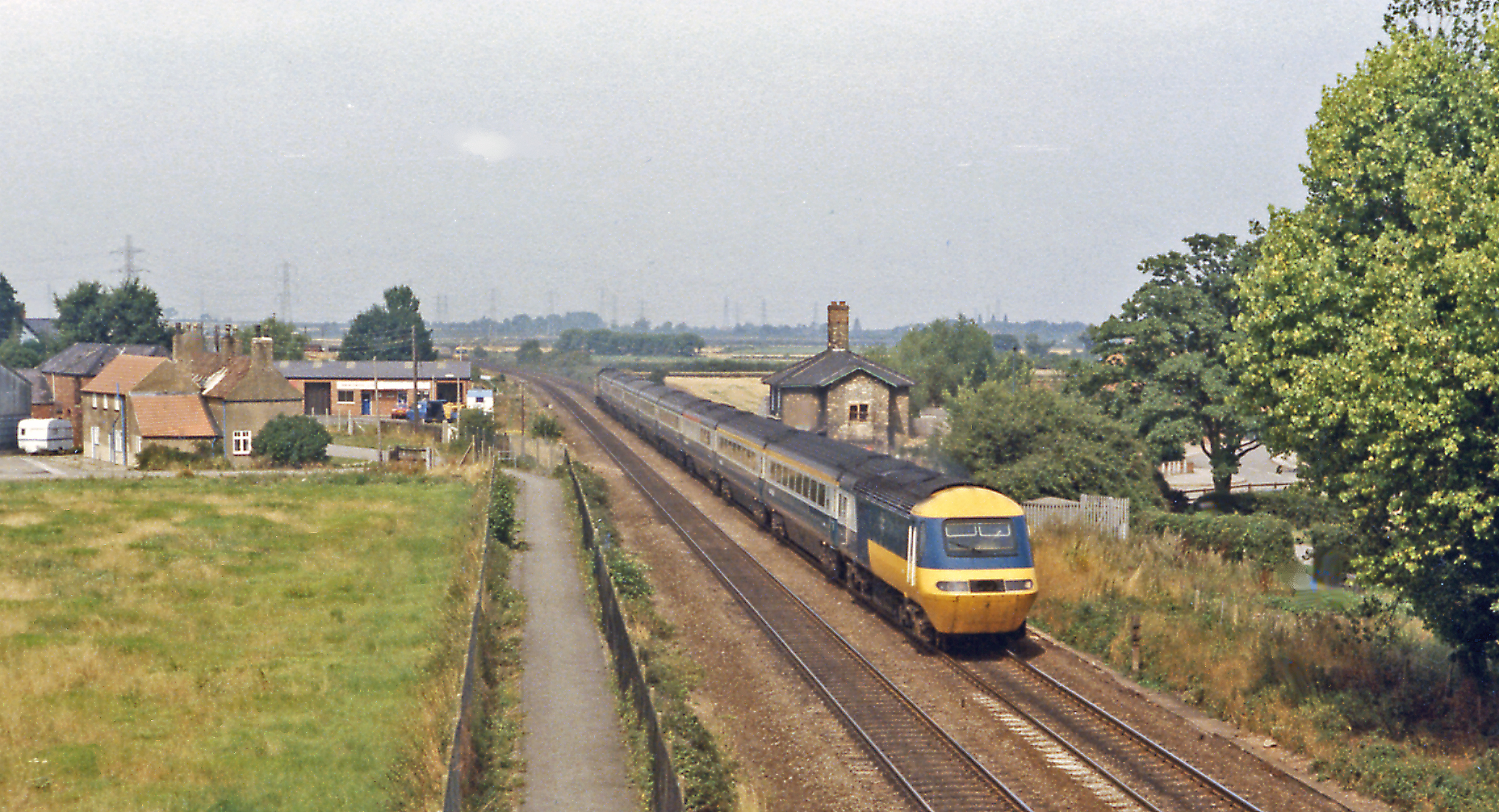 A southbound IC125 passing the site of Crow Park (for Sutton-on-Trent) station, 1983. View northward, towards Retford, Doncaster the North: ex-GN (London - Doncaster) ECML. The station was closed from 6/10/58 along with others little used on the ECML, to allow faster speeds for express trains. This Up express was running perhaps at its maximum of 125 mph.